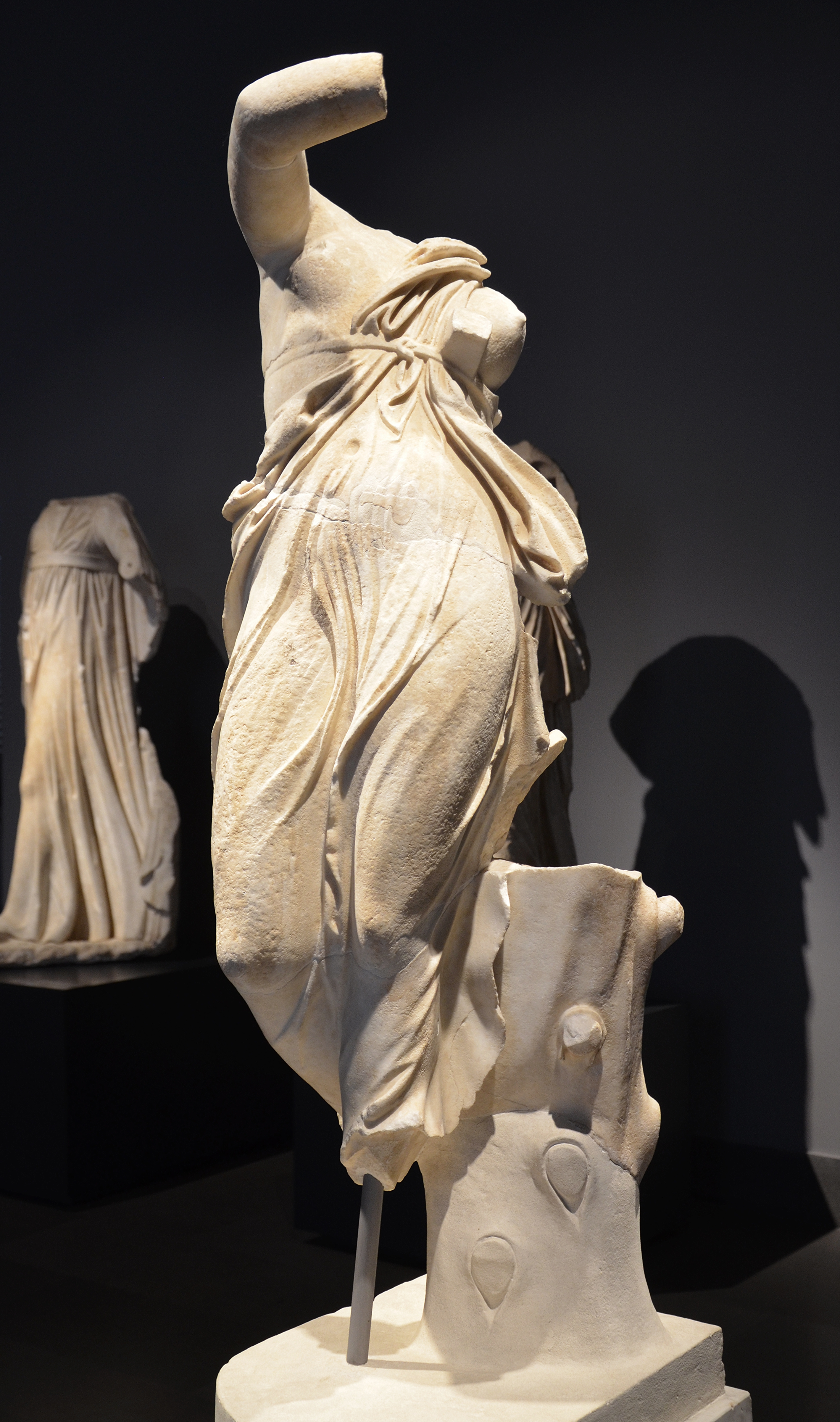 Dancing female figure, thought to be a portrait of Praxilla of Sikyon (a Greek lyric poet), from the portico of the Triclinium of the Three Exedras at Hadrian's Villa, 117 - 138 AD, Palazzo Massimo alle Terme, Rome